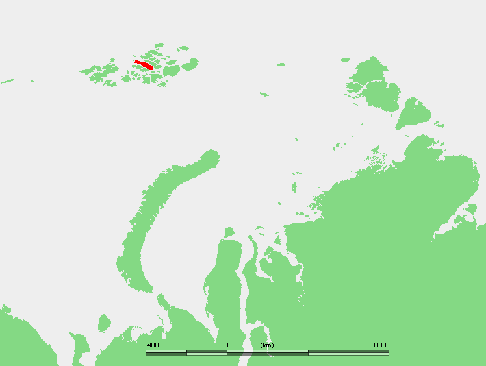 Salisbury Island